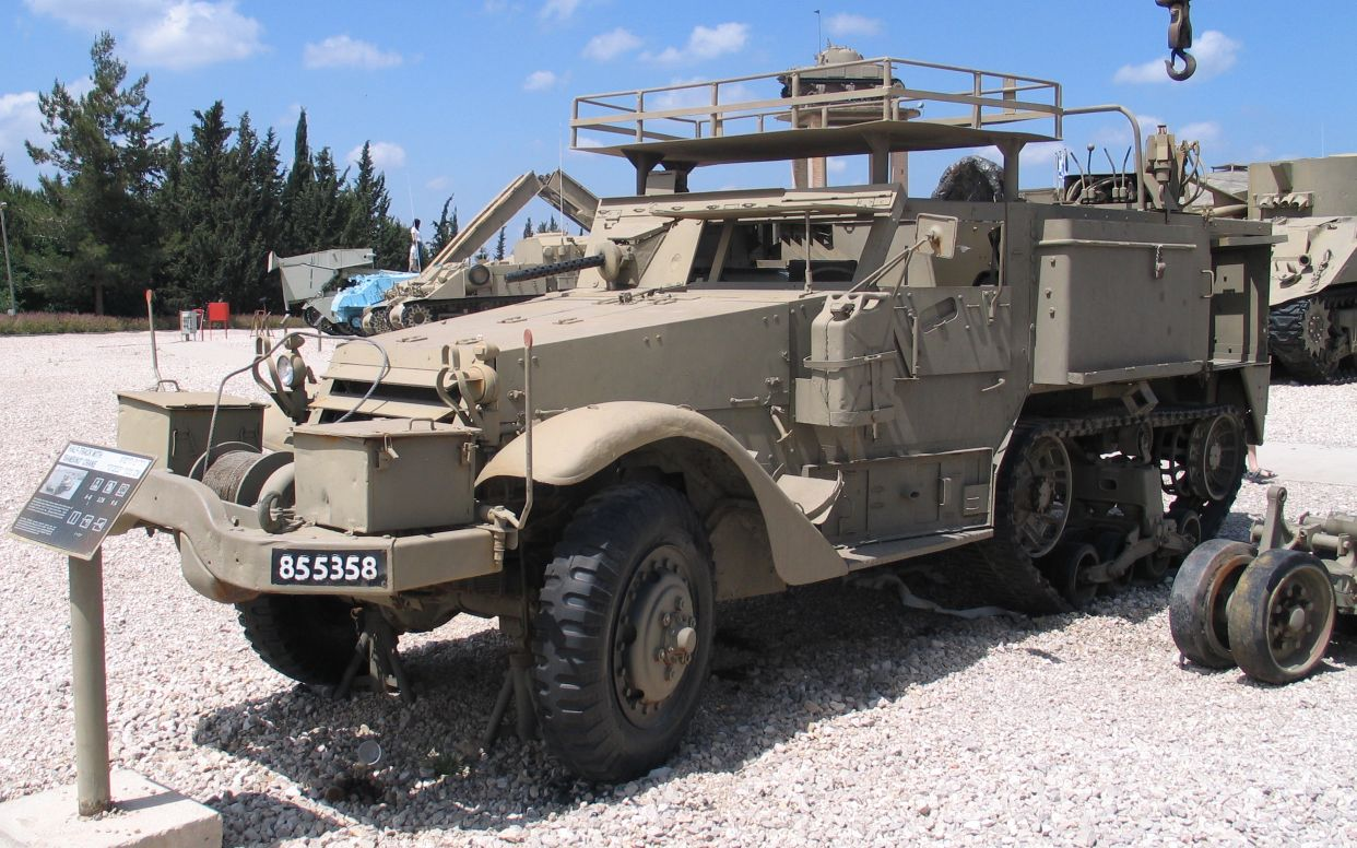 M3 Halftrack with Bambino crane in Yad la-Shiryon Museum, Israel.